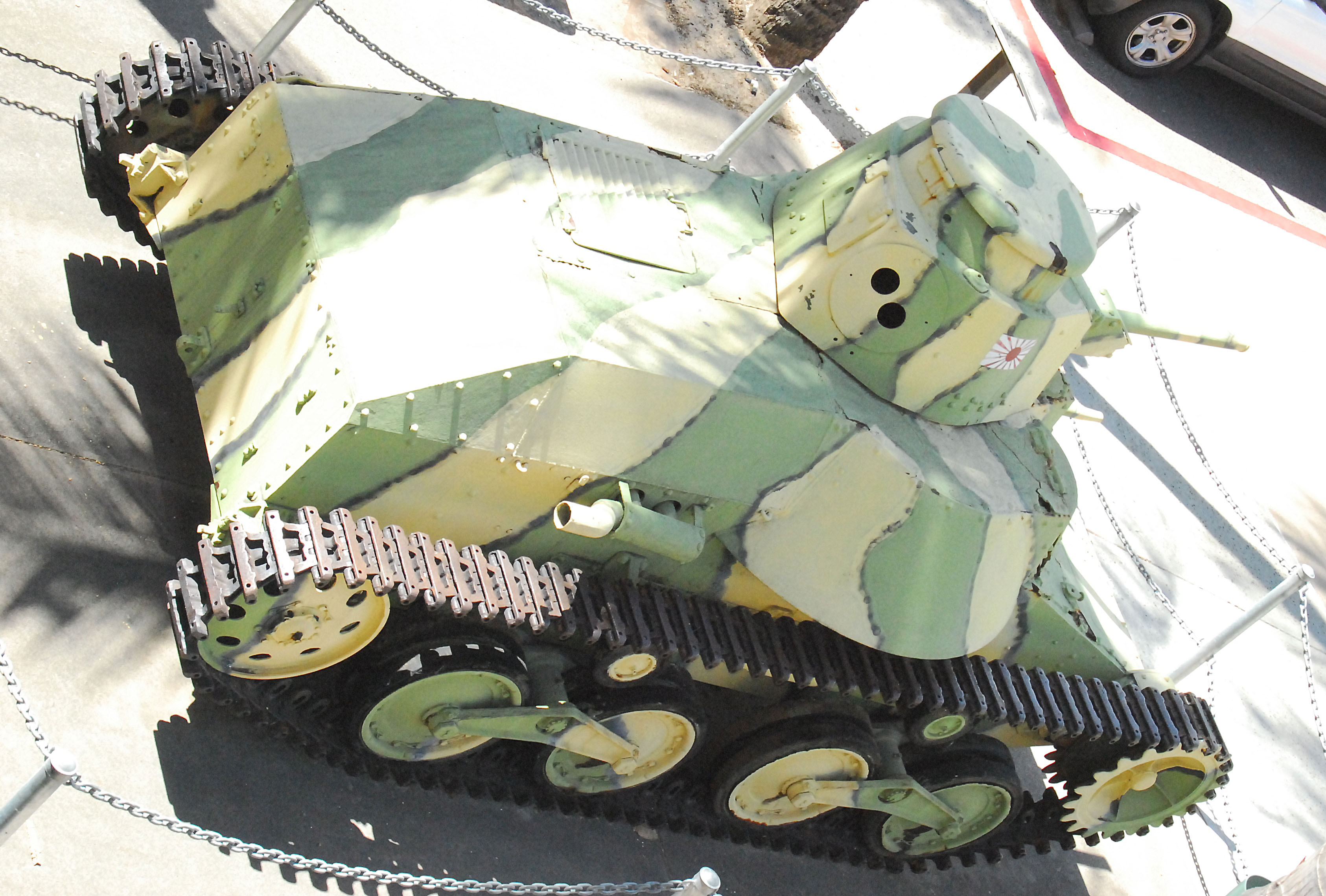 Type 95 tank that was captured during the Battle of Makin, November 20, 1943 by the 27th infantry division. Now on display at Battery Randolf US Army Museum, Honolulu. Other views: Image:Type 95 Front 3-4 view.JPG Image:Type 95 front right side 3-4 view.JPG Image:Type 95 rear view.JPG Image:Type 95 top rear 3-4 view.JPG Image:Type 95 wheel and treads detail.JPG